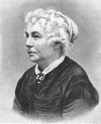 The number is a page number in the book, "Woman Triumphant"; the story of her struggles for freedom, education, and political rights. Dedicated to all noble-minded women by an appreciative member of the other sex by Author: Rudolf Cronau. (1919). The name of the image is the caption name. Follow the link from the image to the full book